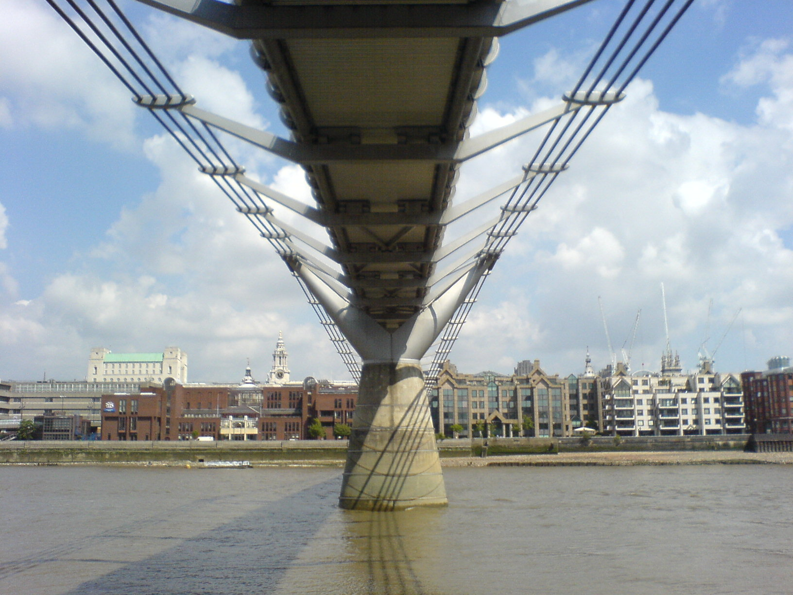 The underside of the Millennium Bridge in London taken from the shore of the River Thames